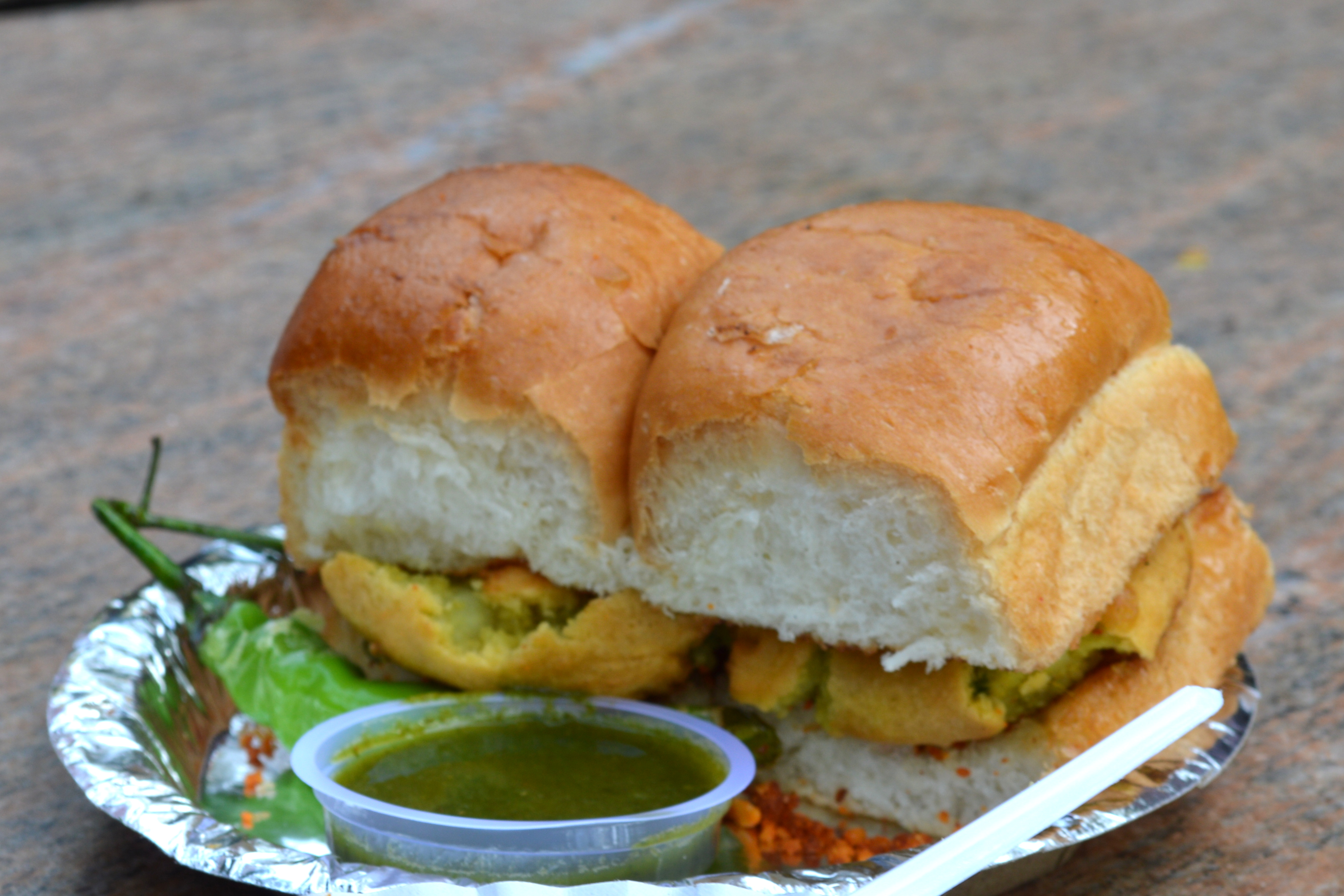 It is an Mumbai's burger made of a spicy potato filling deep fried in a gram flour batter. Along with a hot and spicy garlic chutney.